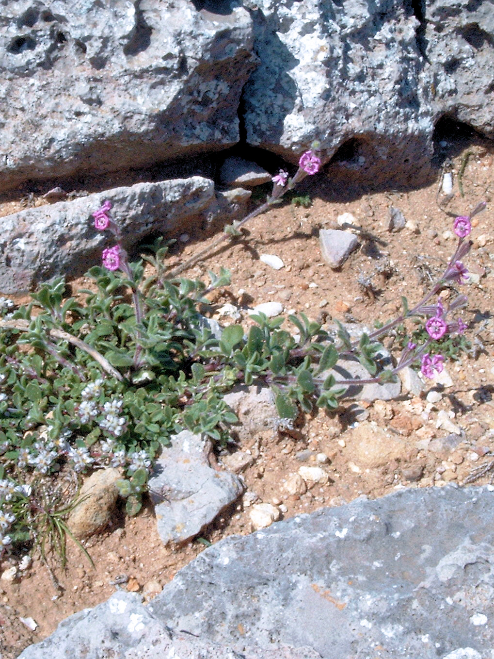 Taken in Portugal (Algarve)